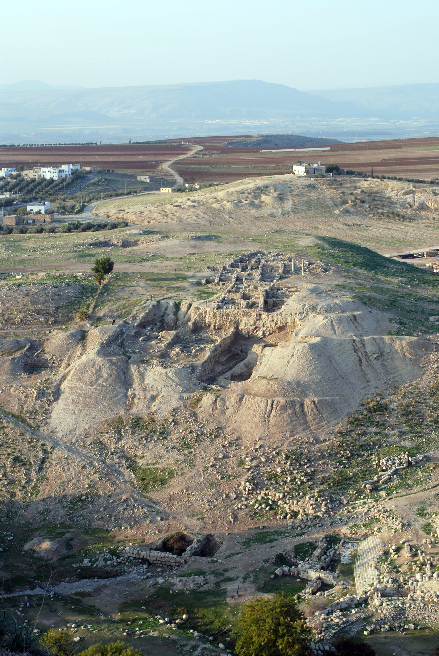 A view of the eastern portion of the main mound at Pella. In the background is the Jordan Valley. The excavations seen here date from the earliest years of the renewed excavations at the site under the auspicies of the Jordanian Department of Antiquities and the University of Sydney. The preserved remains date from the Umayyad Period (seventh/eighth centuries AD) to the Early Bronze Age (3000 BC).